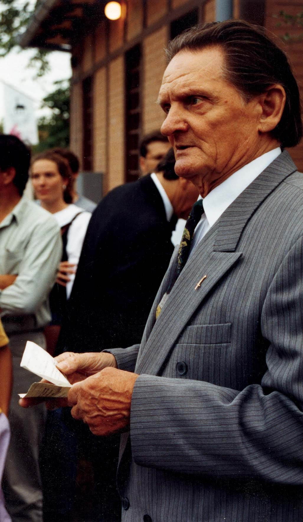 Endre Grandpierre K.